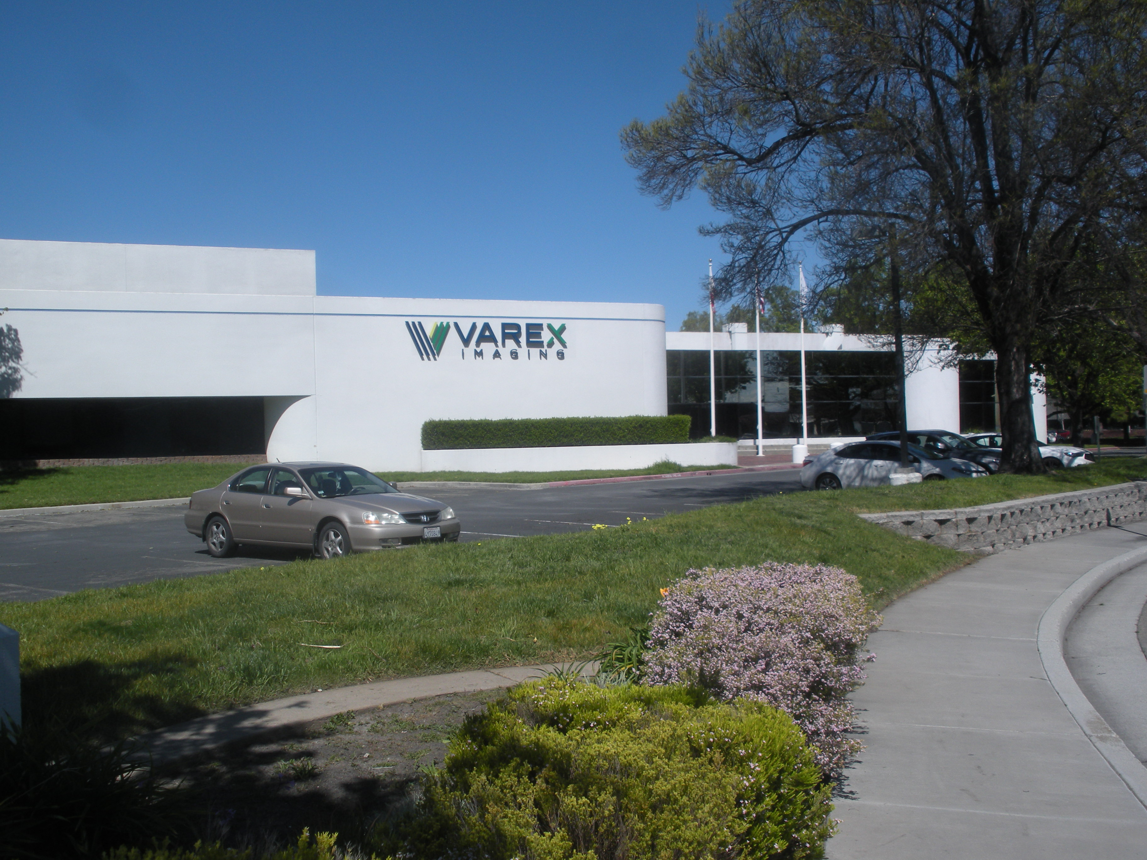 The Varex Imaging office in Santa Clara, California. Originally posted to my Flickr